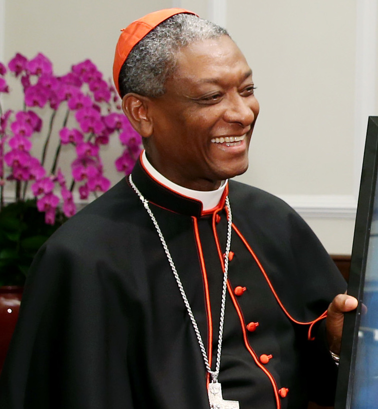 President Ma meets Haiti's Cardinal Chibly Langlois.